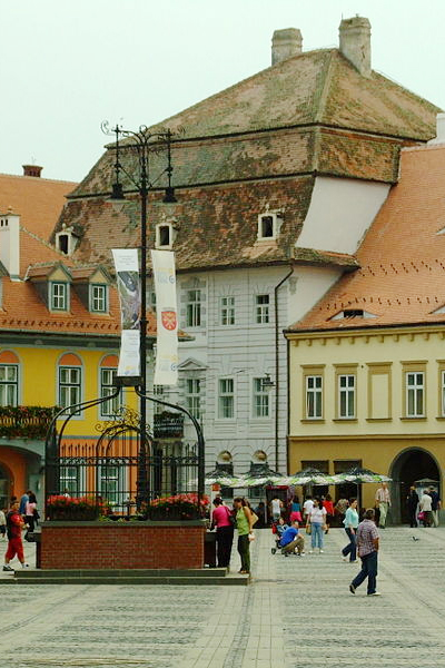 Lutheran Bishop's Palace - Sibiu